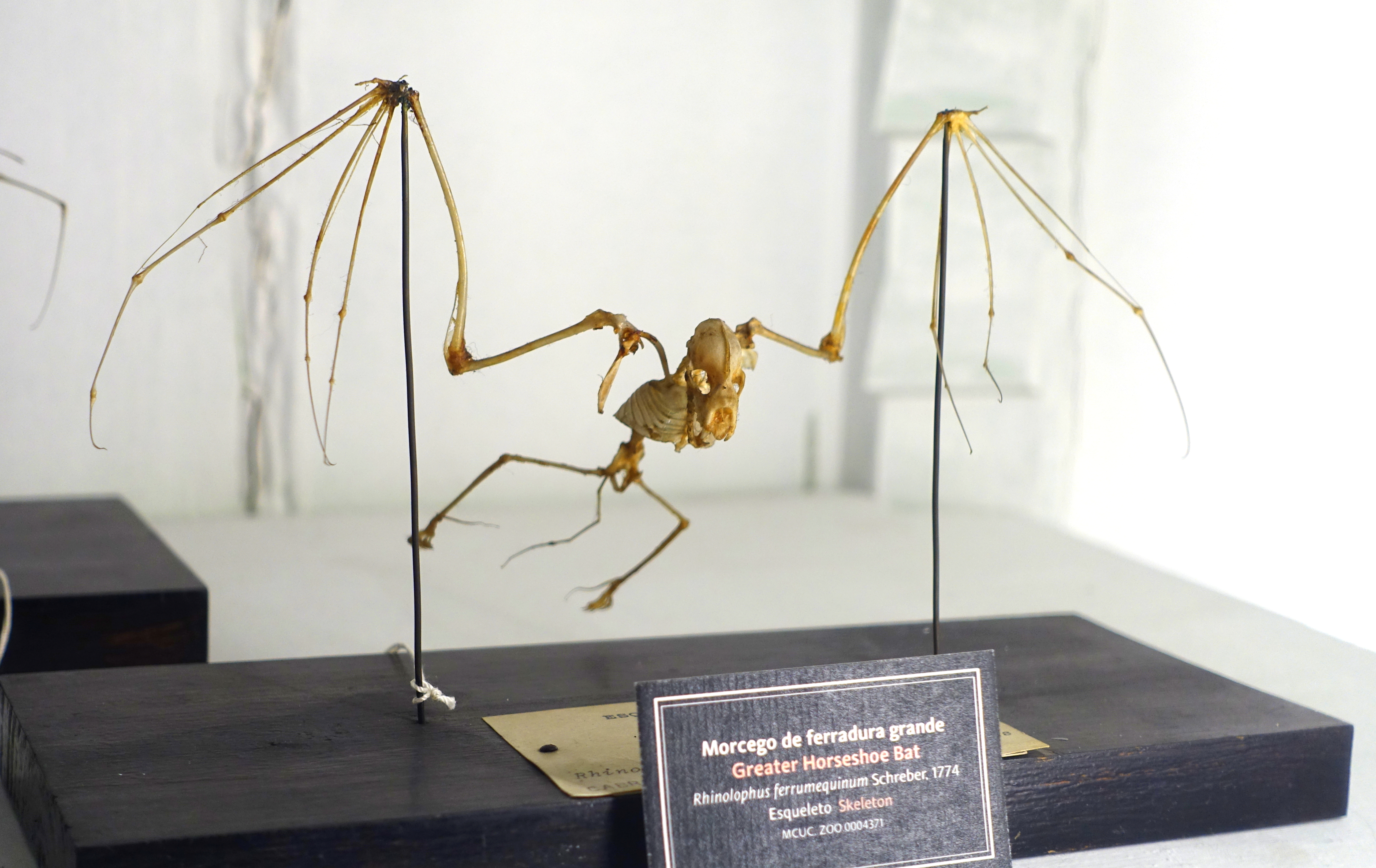 Exhibit in the Museu da Ciência da Universidade de Coimbra - University of Coimbra - Coimbra, Portugal.